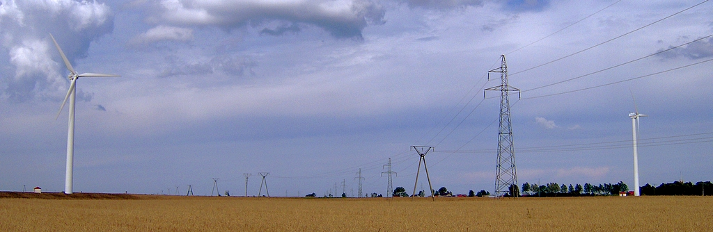 Wind turbines near Swarzewo, Puck district (pl: powiat pucki), Pomorskie voivodeship, Poland, summer of 2006